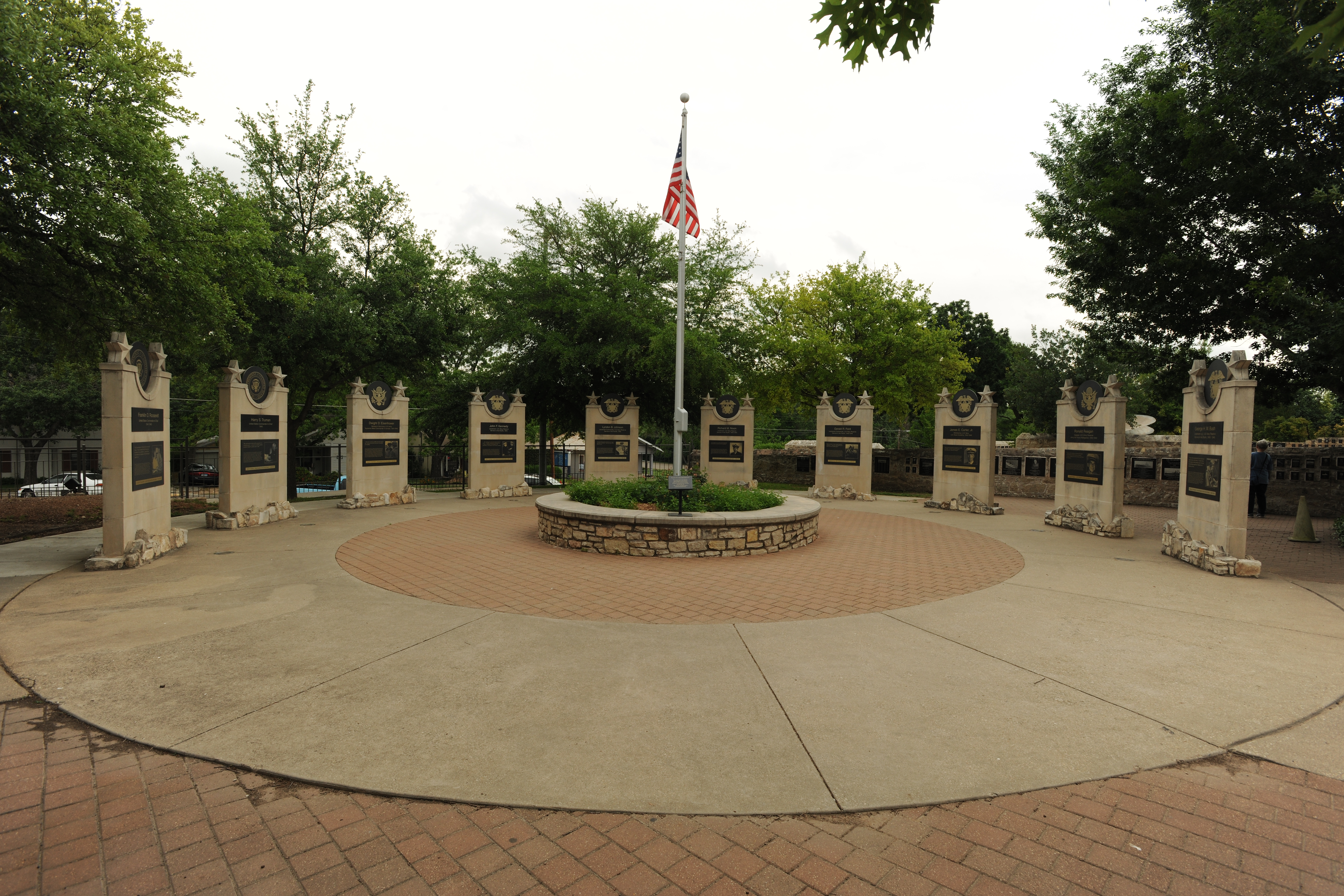 Plaza of the Presidents, commemorating all the US presidents who served during World War II; outdoor display on the grounds of the National Museum of the Pacific War, Fredericksburg, Texas, USA. Each monument honors a US president who served during World War II (FD Roosevelt, Truman, Eisenhower, Kennedy, LB Johnson, Nixon, Ford, Carter, Reagan, and GHW Bush)